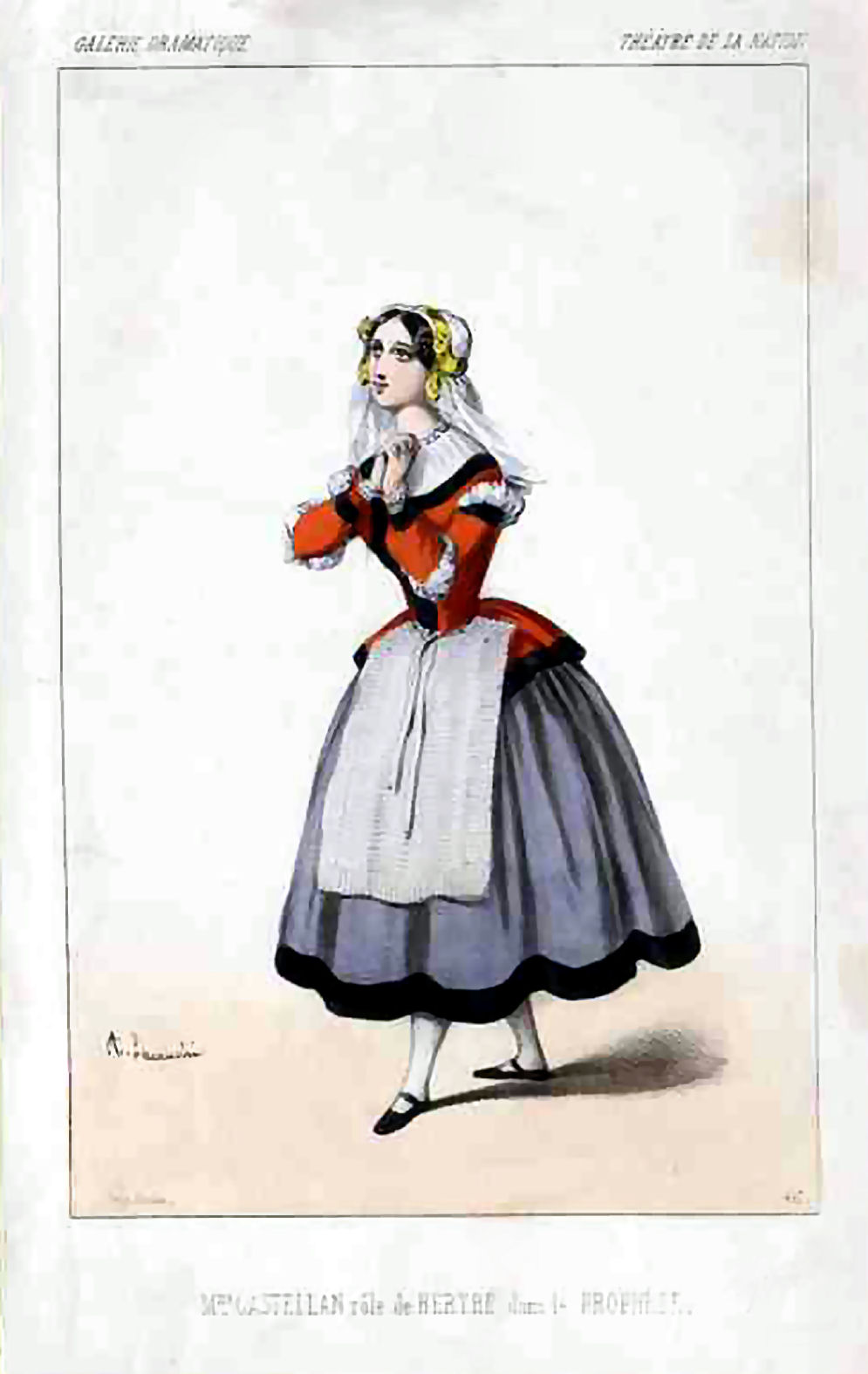 Jeanne-Anaïs Castellan as Berthe in Meyerbeer's Le Prophète (1948)